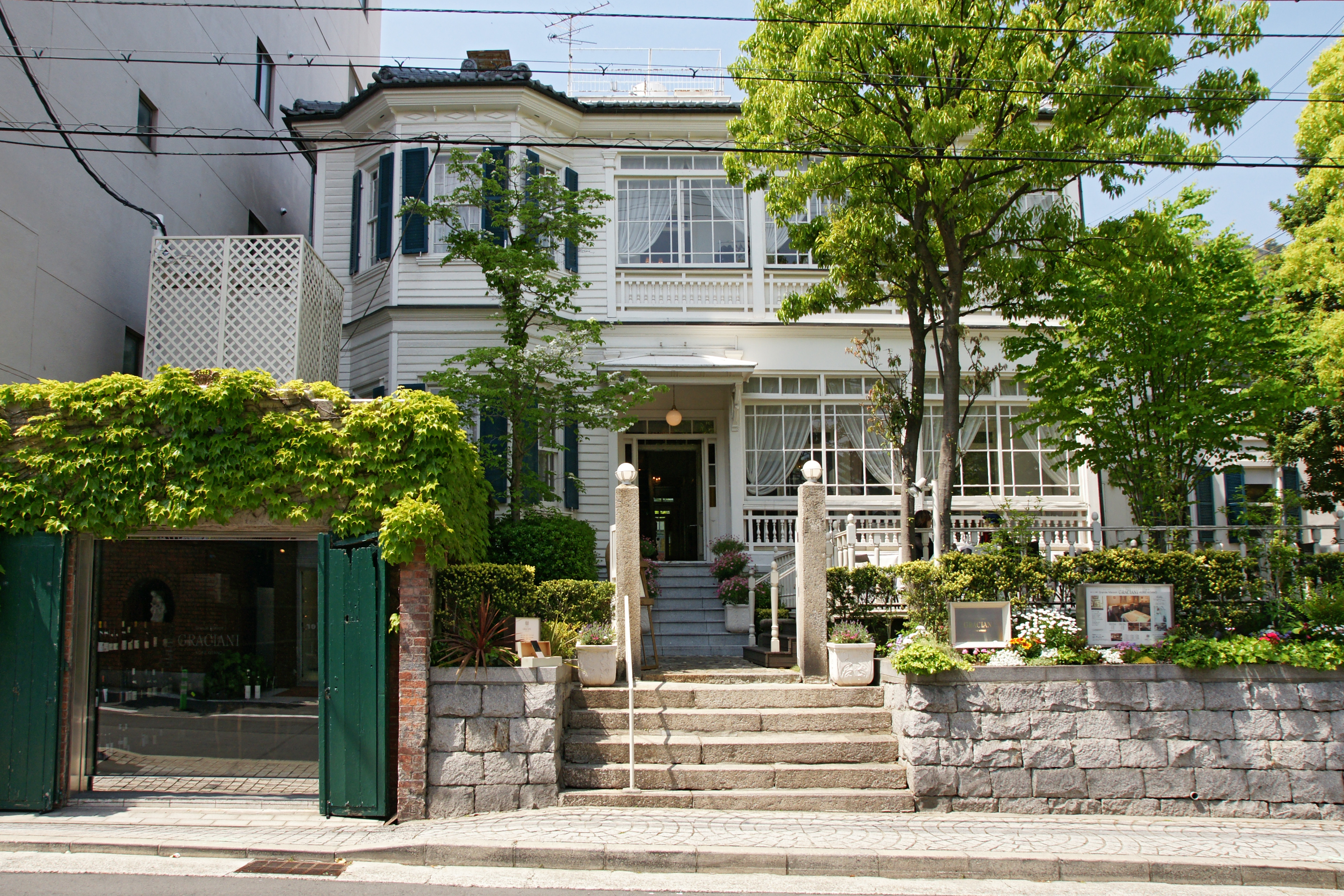 Old Graciani House (Restaurant Graciani) in Kobe, Hyogo prefecture, Japan